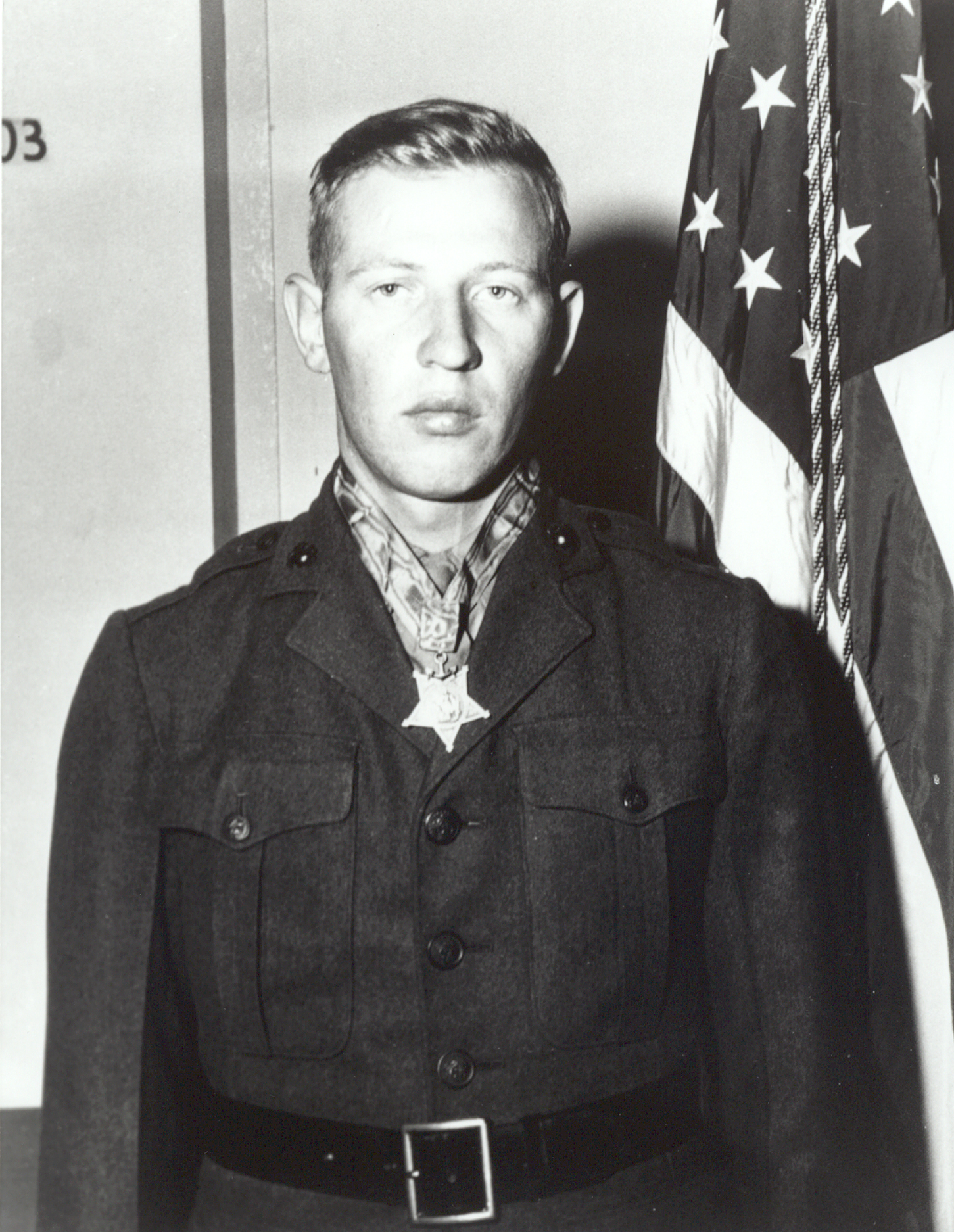 Franklin E. Sigler, USMC, Medal of Honor recipient for actions during the World War II Battle of Iwo Jima; photo from official Marine Corps biography at